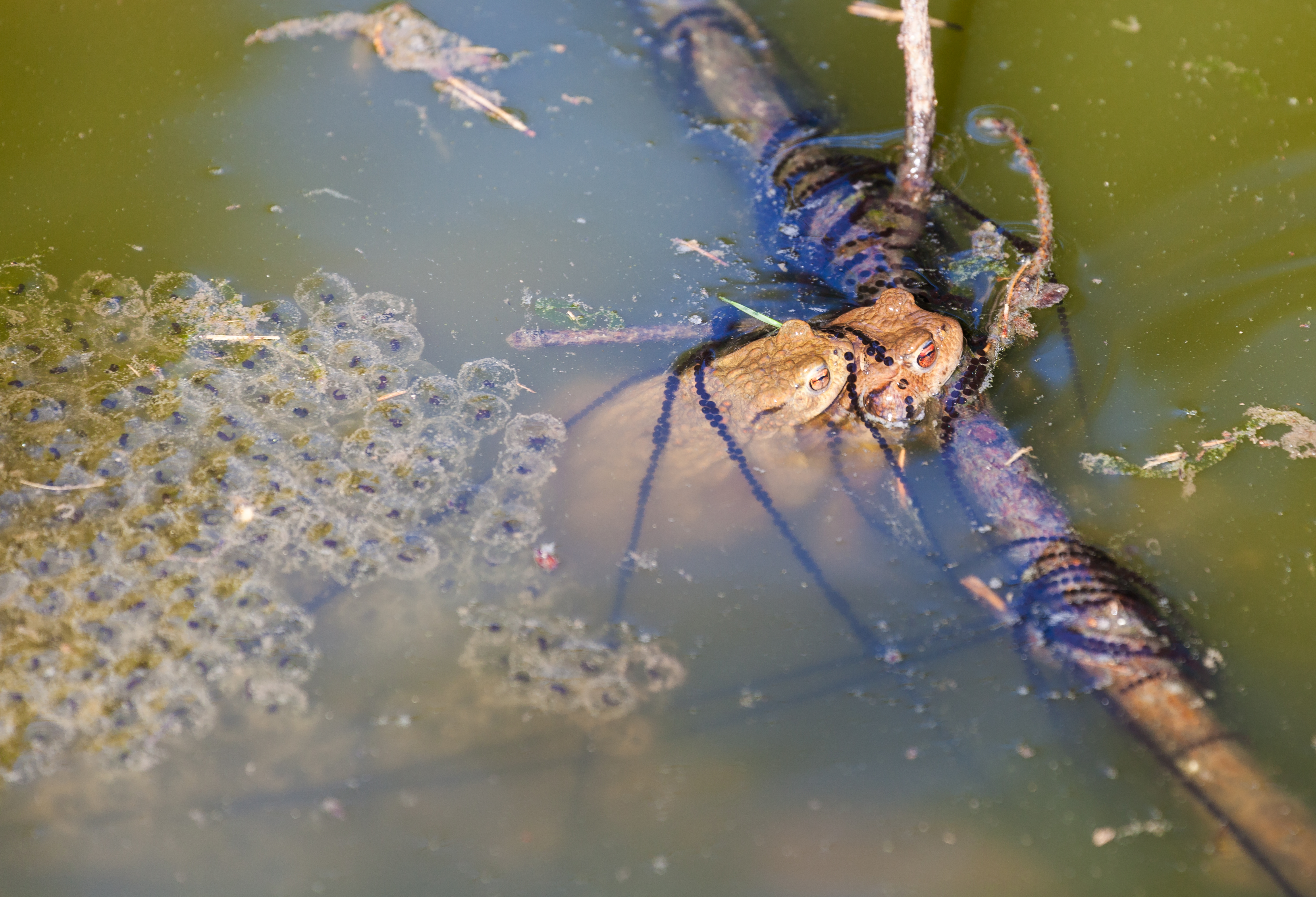 Common toad (Bufo bufo), Hartelholz, Munich, Germany